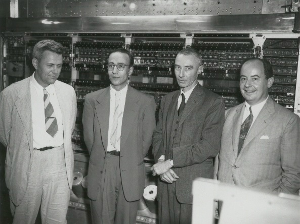 Left to right: Julian Bigelow, Herman Goldstine, J. Robert Oppenheimer, and John von Neumann at Princeton Institute for Advanced Study, in front of early computer MANIAC.